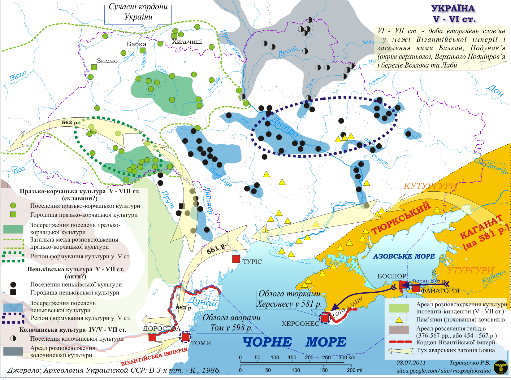 Earth's present-day Ukraine in 5-6 centuries